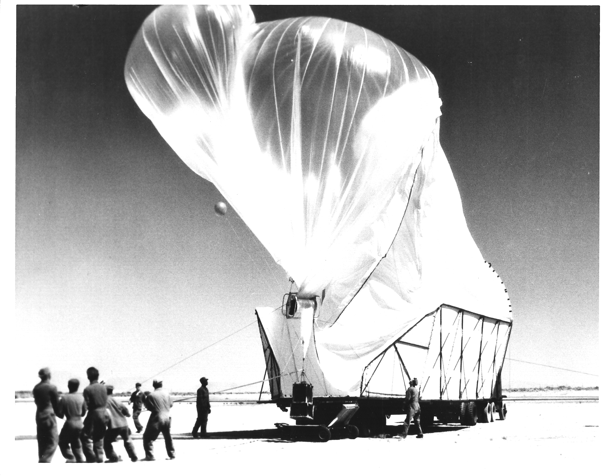 Launch of a Project MOBY DICK balloon at Holloman Air Force Base, New Mexico circa 1955